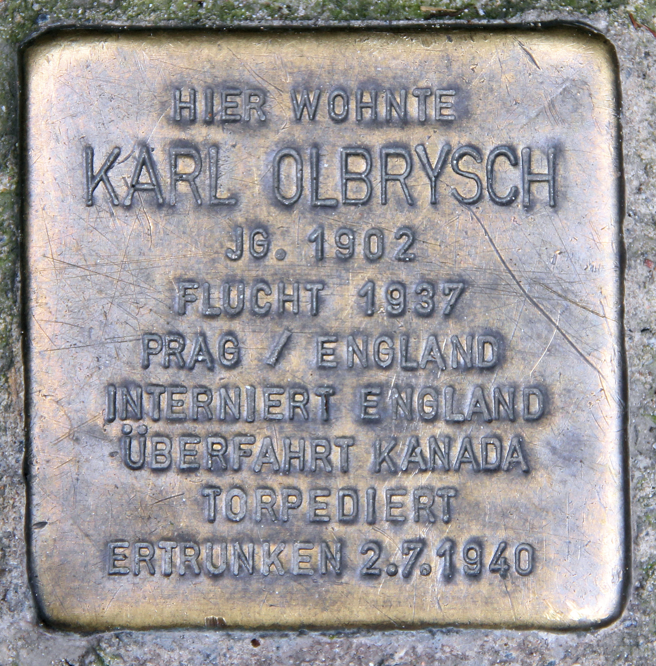 "Stolperstein" (stumbling block), Karl Olbrysch, Goltzstraße 13, Berlin-Schöneberg, Germany Koordinate:52°29′33″N 13°21′13″E / 52.4925°N 13.35361°E